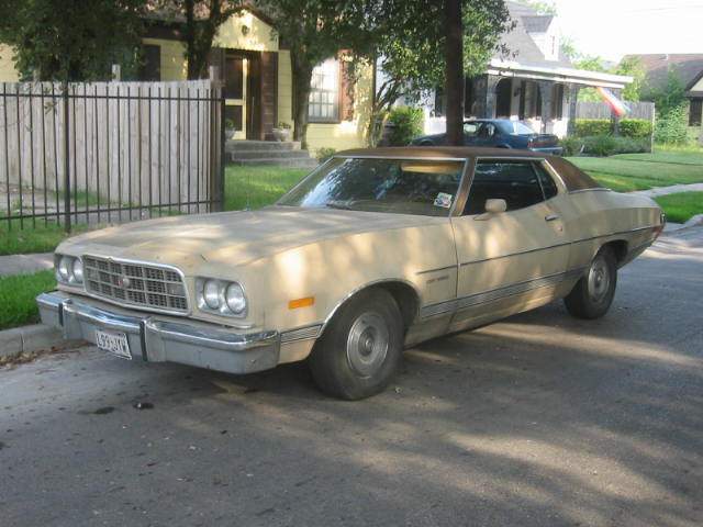 1973 Gran Torino coupe - seen as a daily driver in Houston, TX. This particular bodystyle is famous for the Starsky and Hutch car.